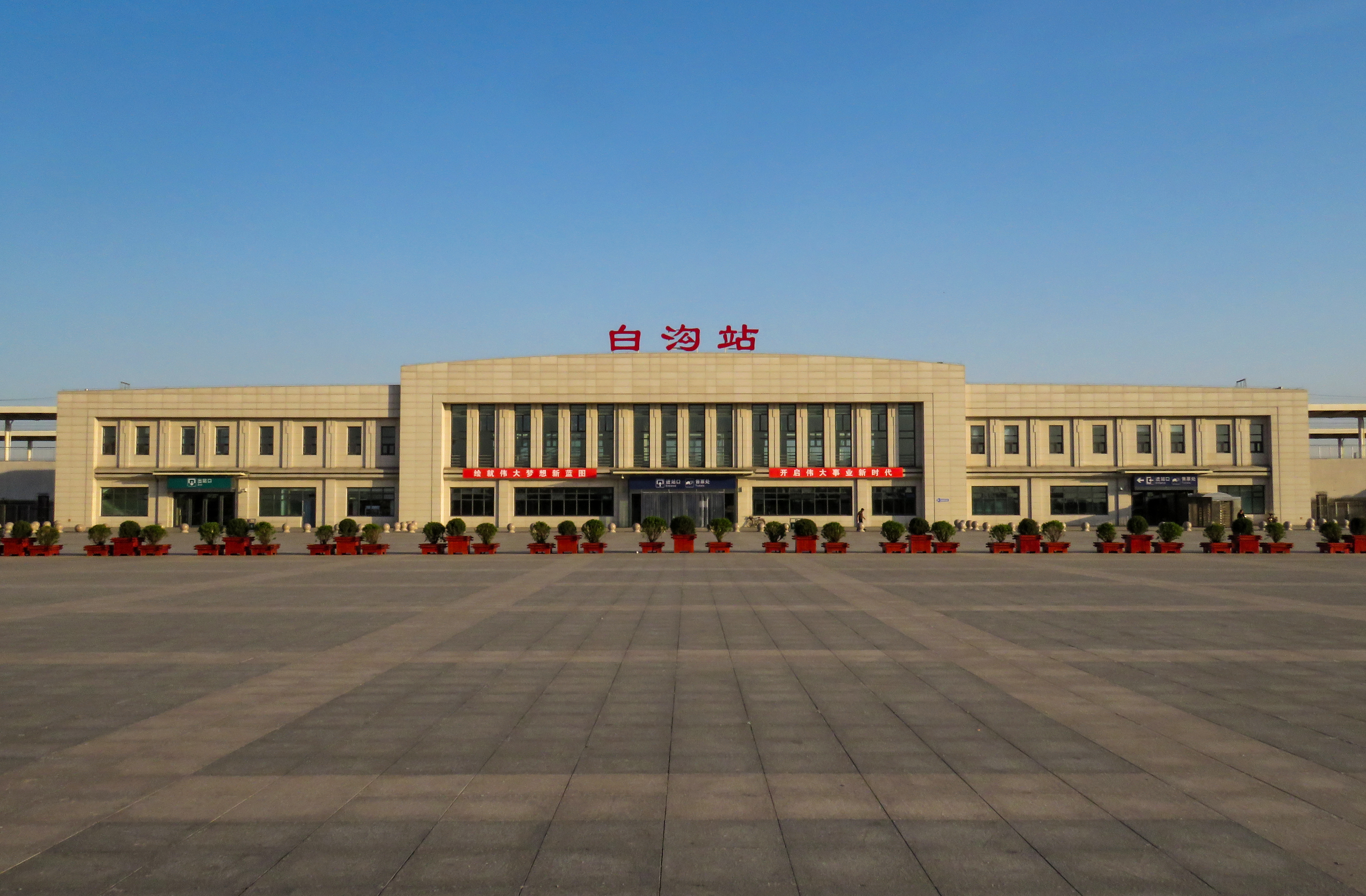 This station lies in Xiong County, while it's actually closer to the town of Baigou. However, the roads from Xiong County to this station, as well as that from Baigou, may fail to meet the demands of a new area. After all, it's still a "Ground Zero" because the plan has just been revealed in April!